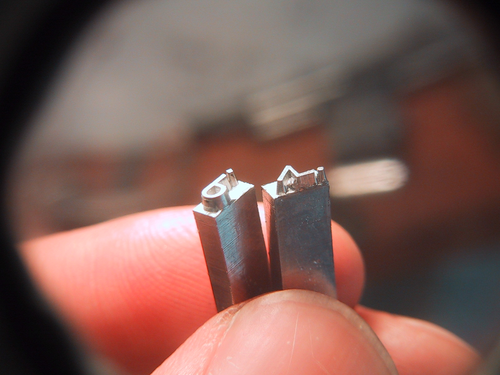 New Type! Photographs taken by Christopher Chen, showing creating a Cree typeface on hot metal Monotype machinery.